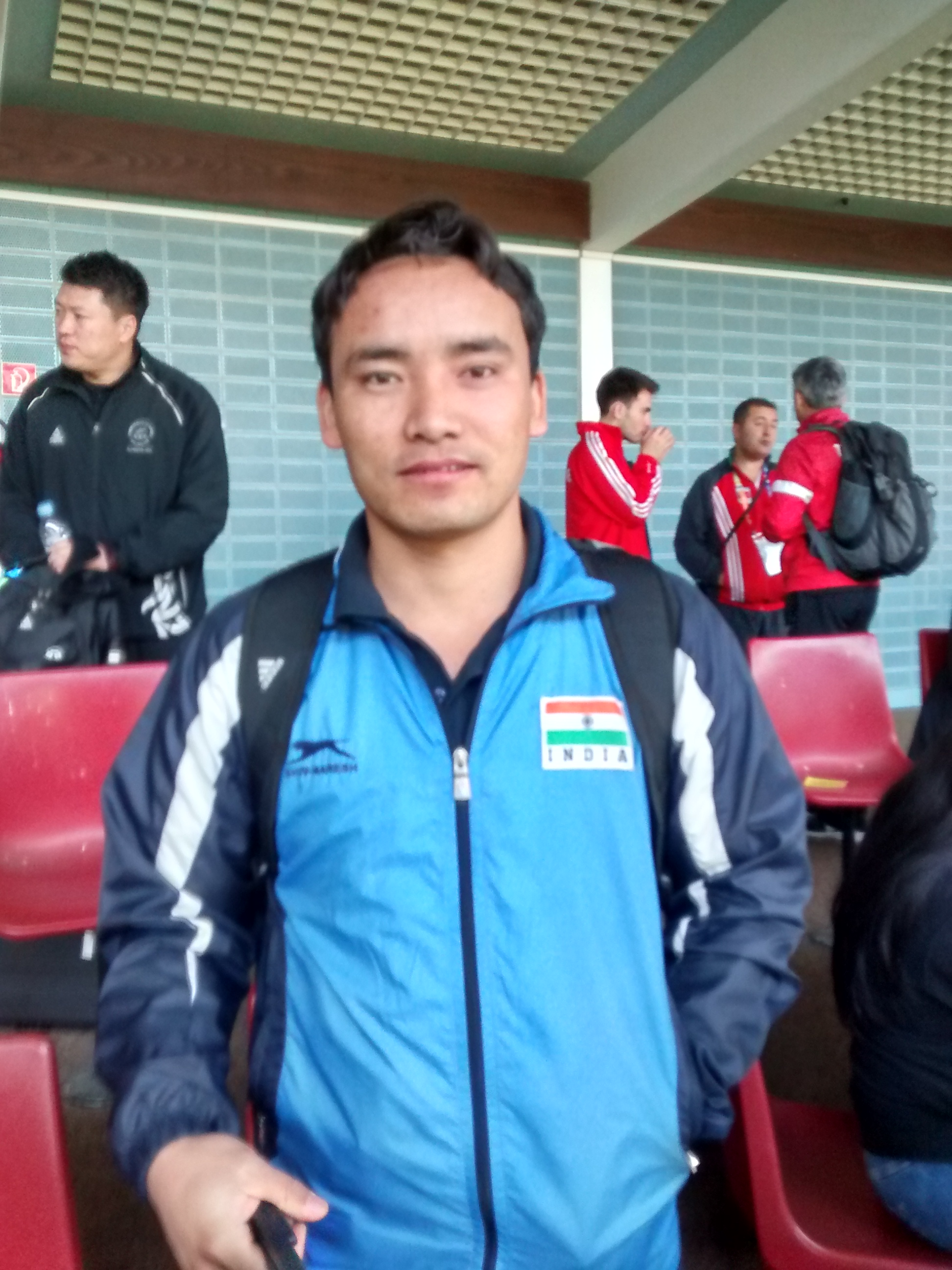 Photo taken during the World Cup in Munich in 2015.